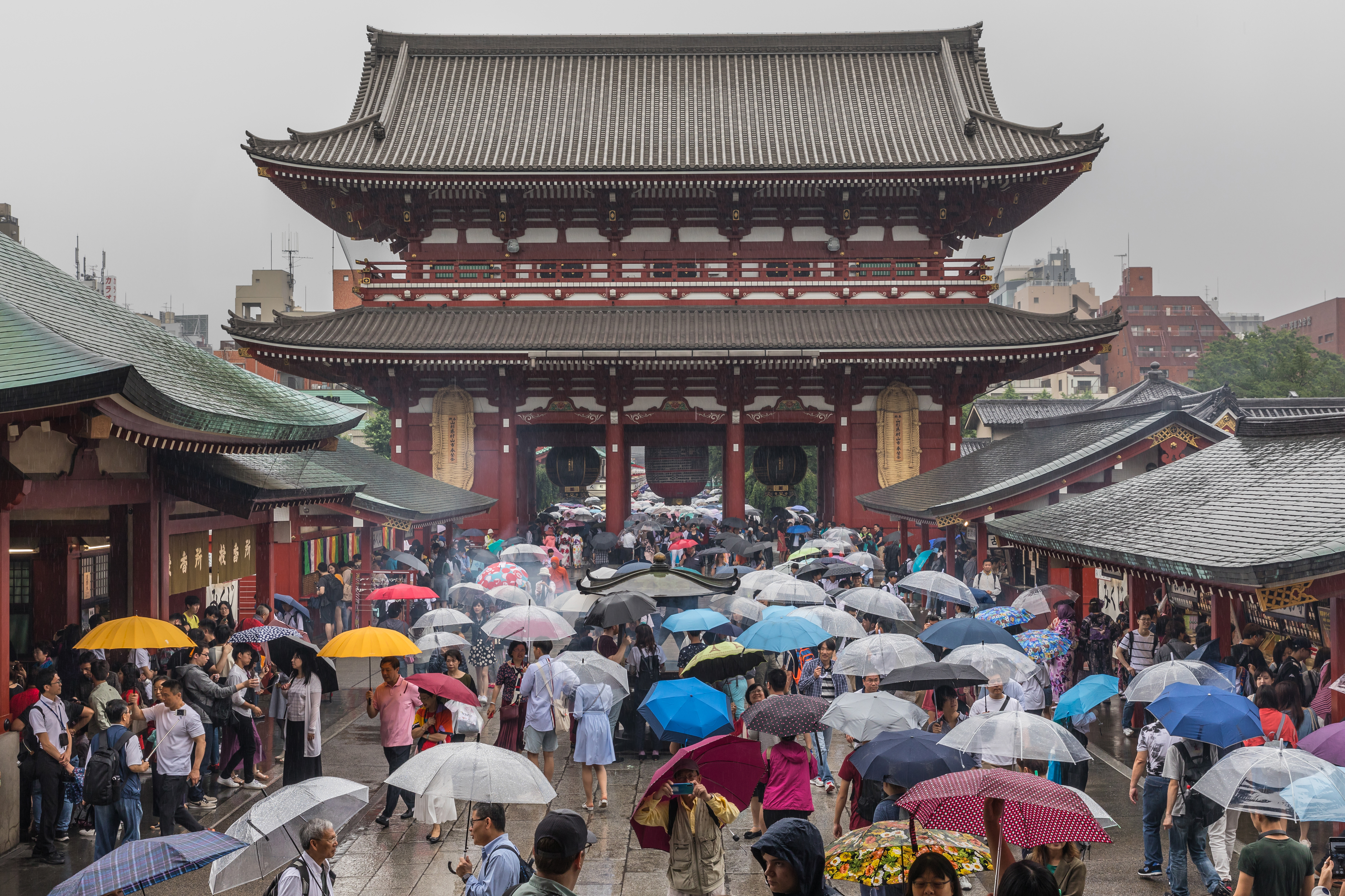 Hōzōmon with visitors under their umbrellas, a rainy day in Tokyo, Japan.